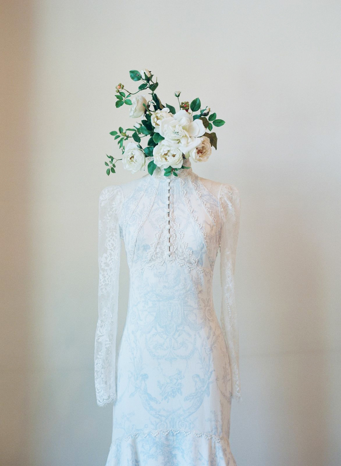 Claire Pettibone gown, Toile Francais, on display at the Flagship Salon at the "Castle" - Heinsbergen Decorating Building at 7415 Beverly Boulevard, Los Angeles, CA 90036